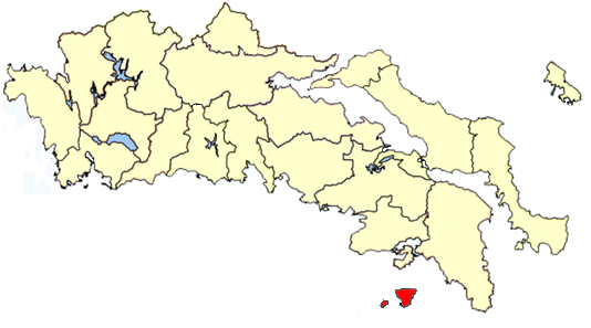 Aigina province